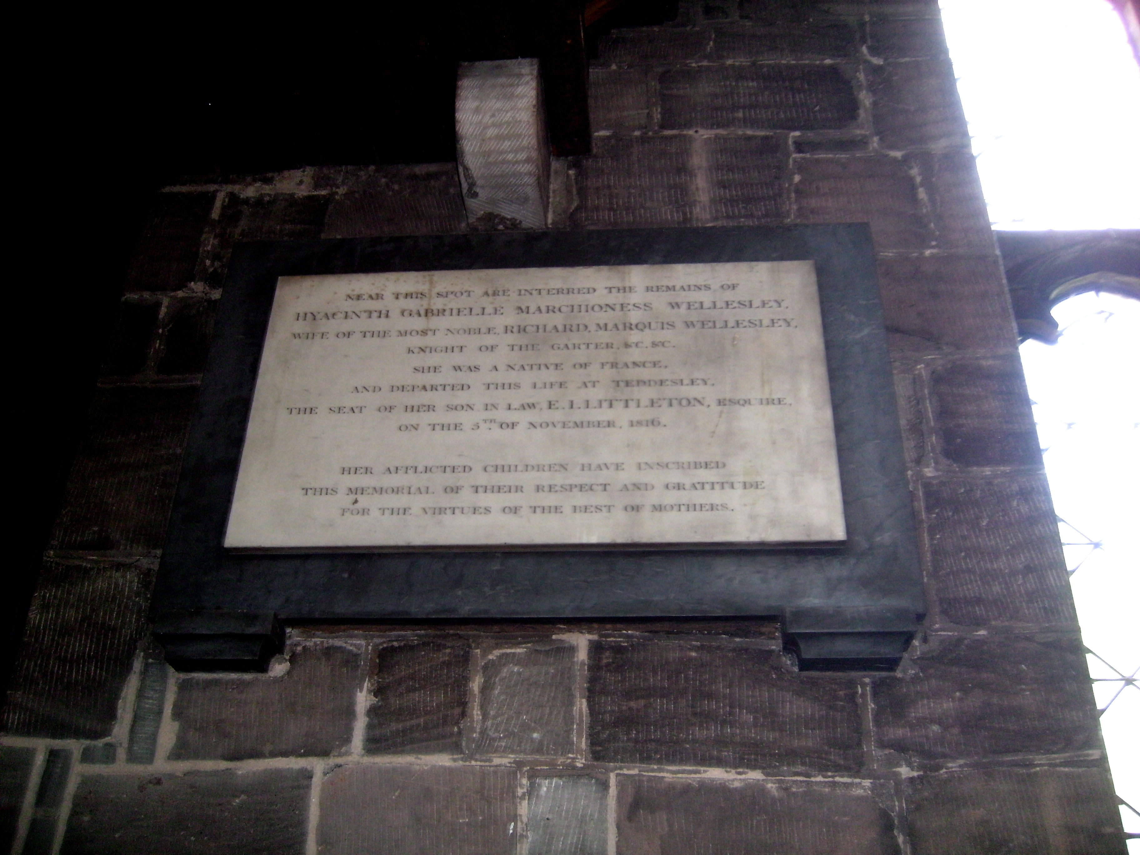 Penkridge, Staffordshire, St. Michael and All Angels Anglican parish church. Memorial to Hyacinthe Gabrielle Roland, wife of Richard Wellesley and mother of Hyacinthe Wellesley, who married Edward Littleton, later 1st Baron Hatherton.